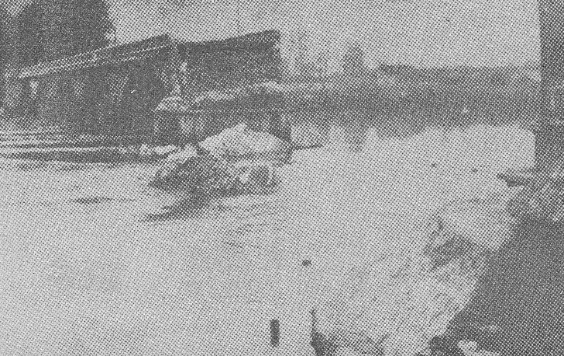 "Moccoli" bridge upon Arno, the Italian river, destroyed by the 1920 flood. It linked San Rossore with San Piero a Grado, near Pisa, Tuscany, Italy.